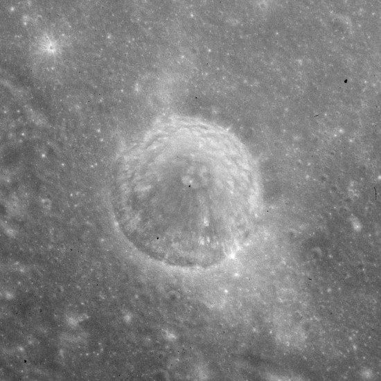 Taruntius F crater (west of Taruntius), on the moon.